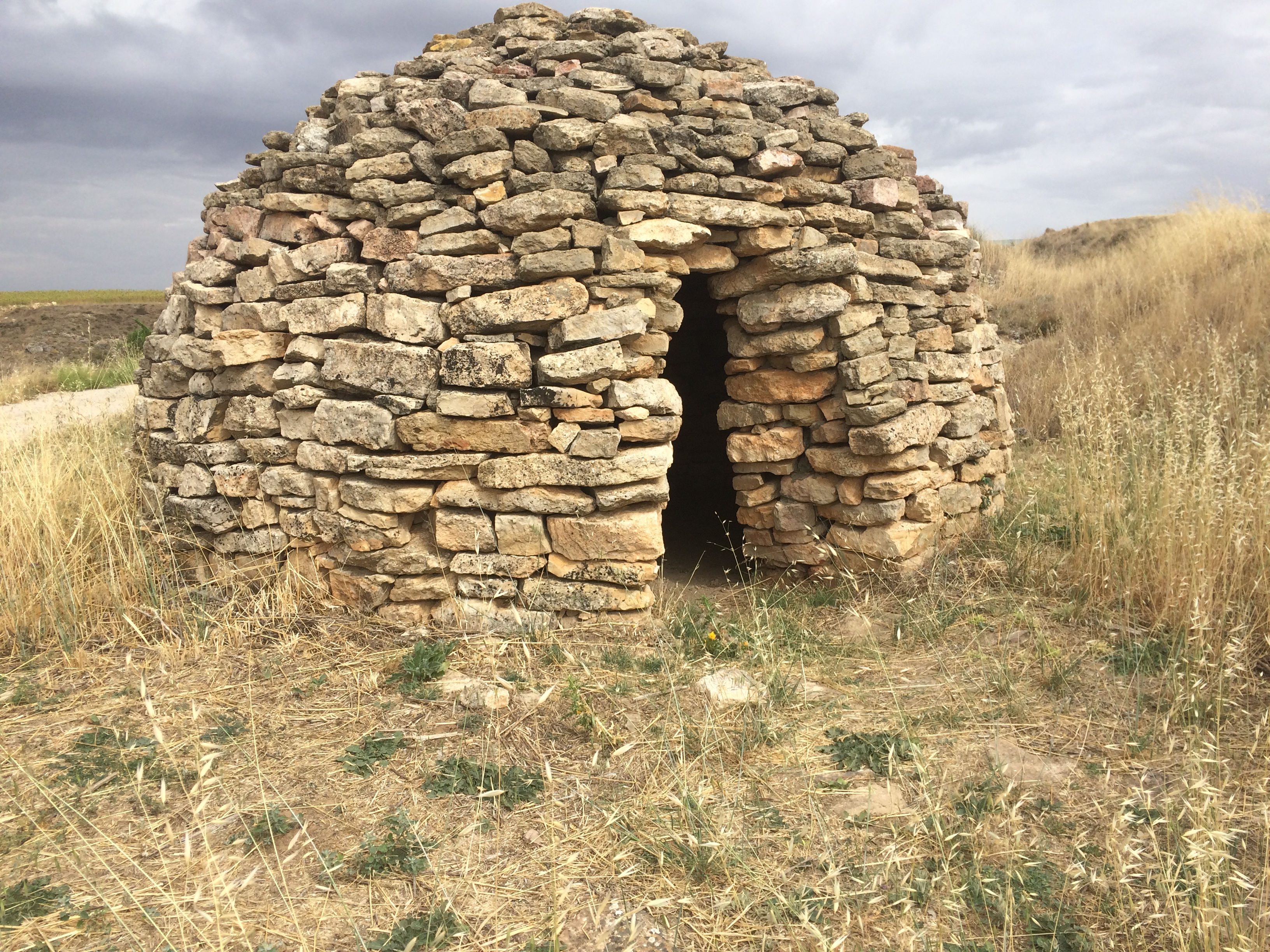 Reconstruction of a neolithic "lime kiln tomb" before being burnt. Ambrona Valley. Soria. Spain